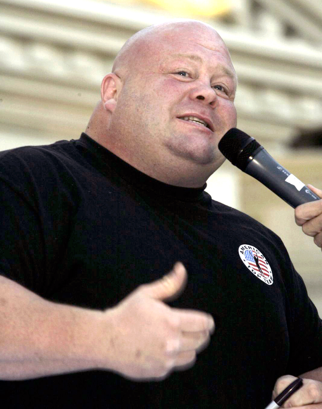 Eric Esch at the Caesars Palace on October 19, 2006.